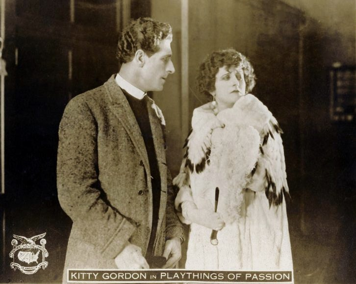 Lawson Butt & Kitty Gordon in Playthings of Passion - publicity still